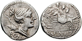 A. Postumius Albinus Sp. f. 96 BC. AR Denarius (3.94 g). Bust of Diana right, draped, with bow and quiver over shoulder; below ROMA Three horsemen galloping left over fallen warrior. in exergue: A ALBINVS S F Crawford 335/9; Postumia 4a. VF.